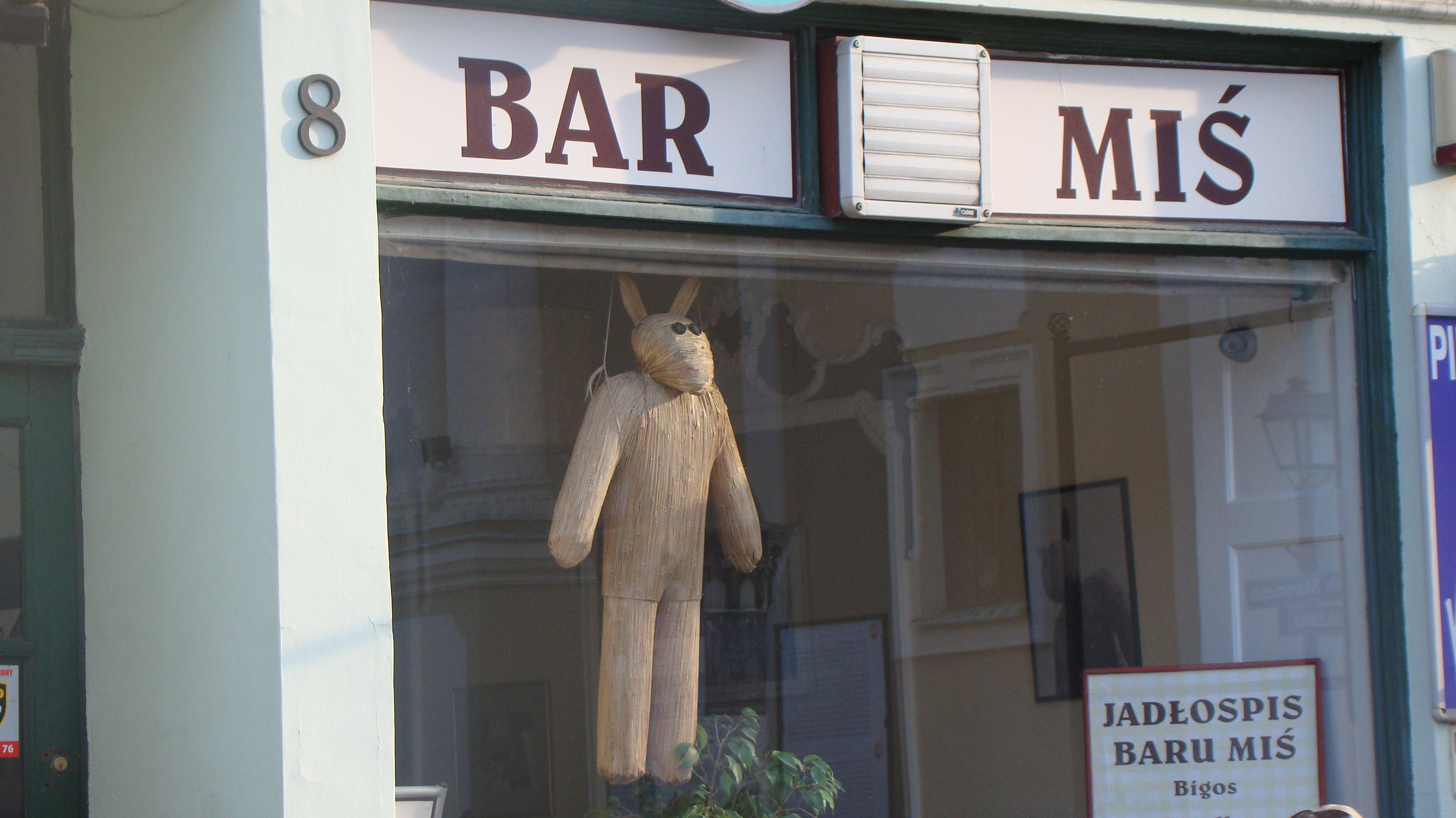 Restaurant in Toruń